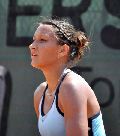 The Russian tennis player Ekaterina Bychkova during a game of the German Female national league between TC Moers 08 and TC WattExtra Bocholt in Moers in July 2010